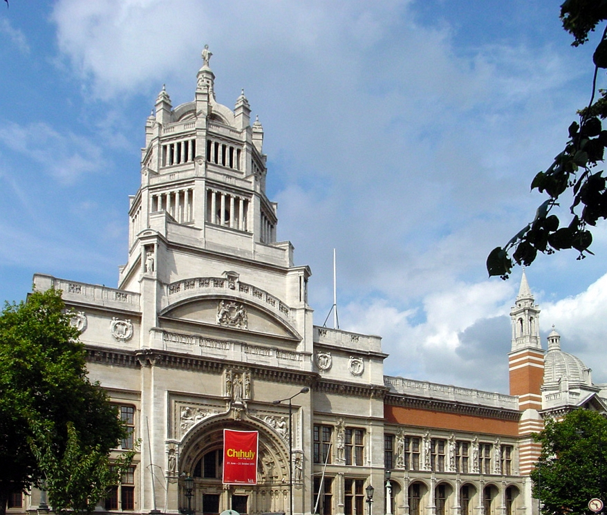 Façade of the Victoria and Albert Museum, London, England